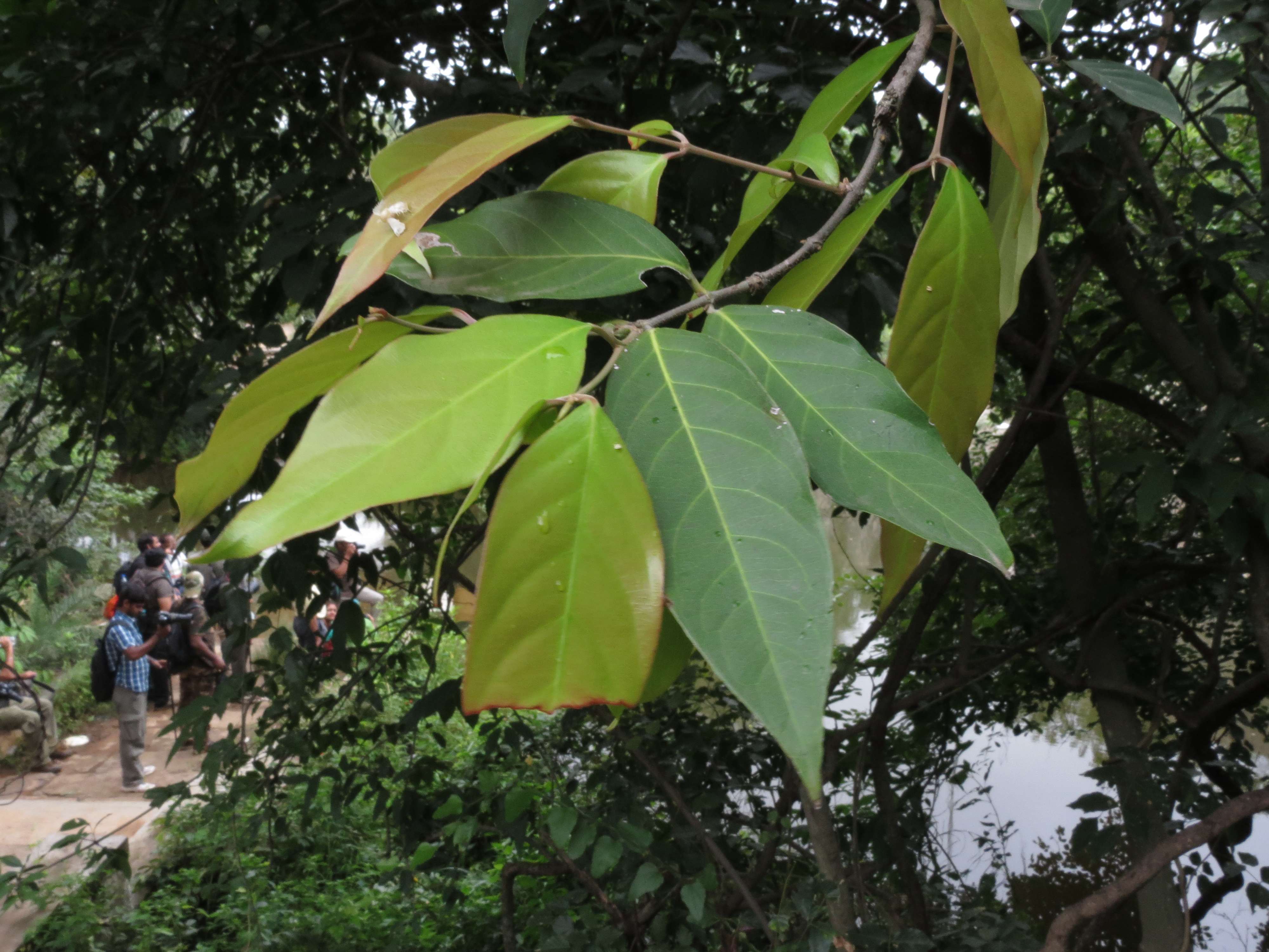 Hiptage benghalensis seen in Gulkamale bangalore rural off Kanakapura road